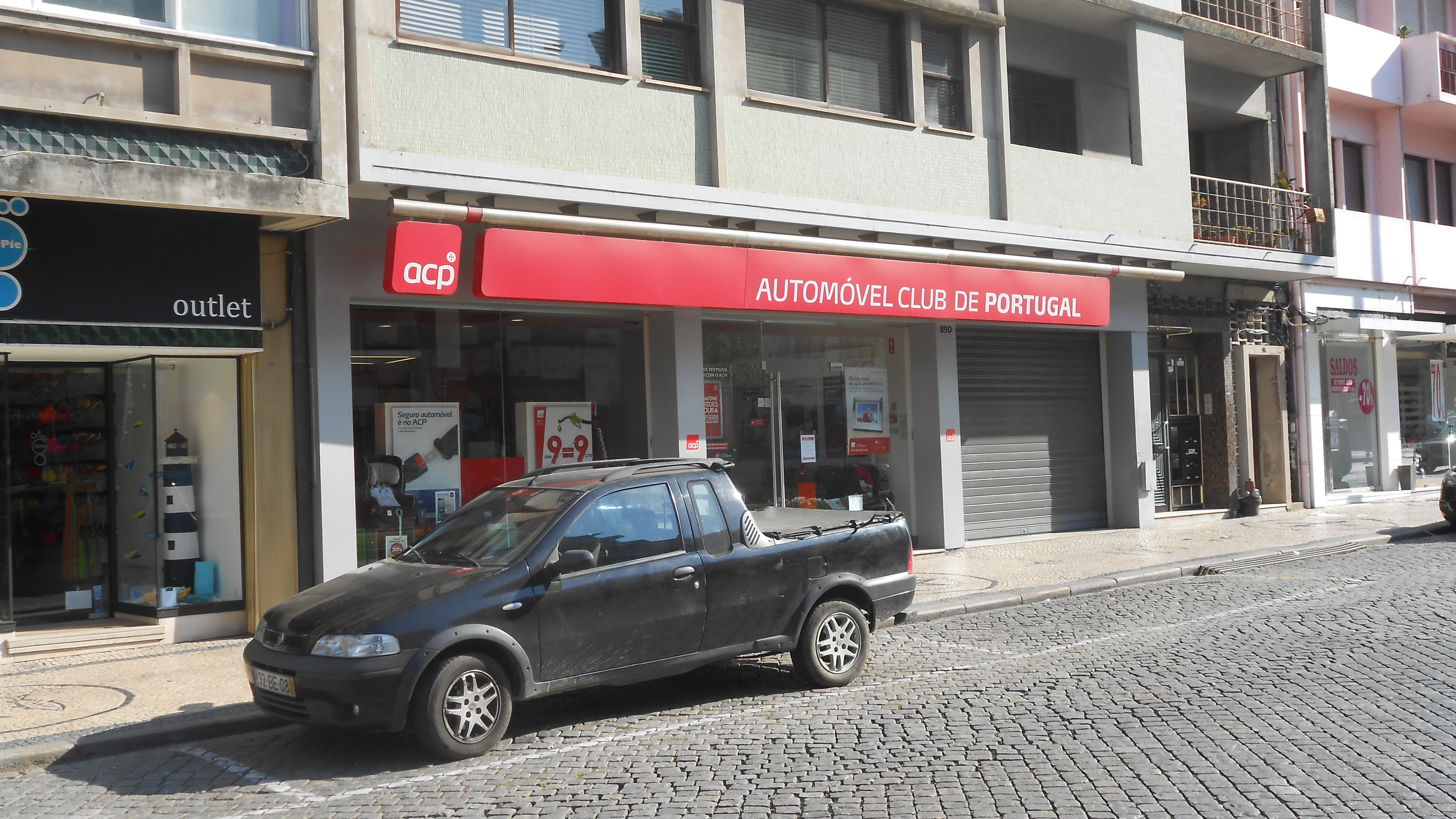 Office of the Automóvel Club de Portugal (ACP) in Aveiro.